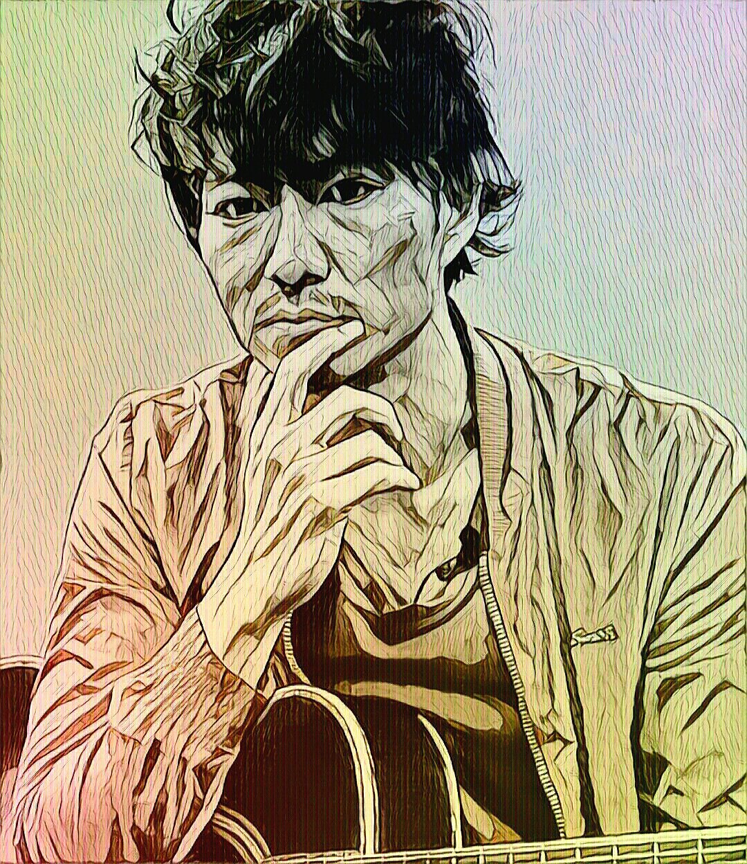 Soko Izumi is endeavouring to fulfil his dreams in Hong Kong.